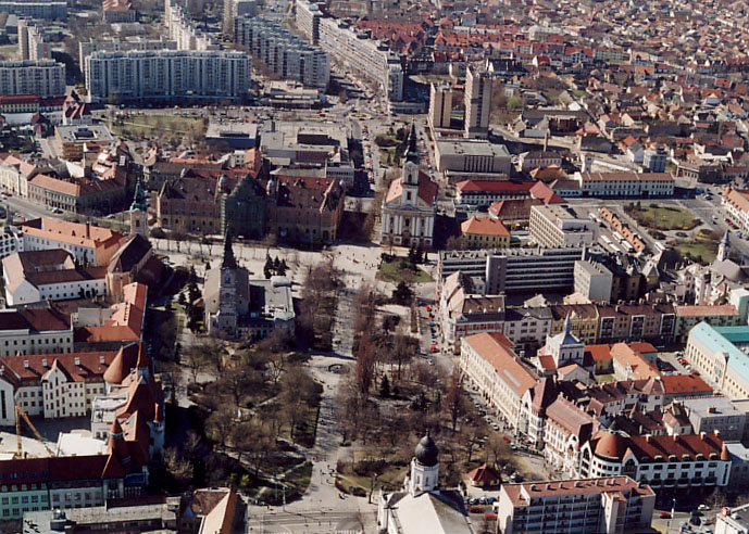 Downtown, Kecskemét - Bács-Kiskun megye - Hungary - Europe